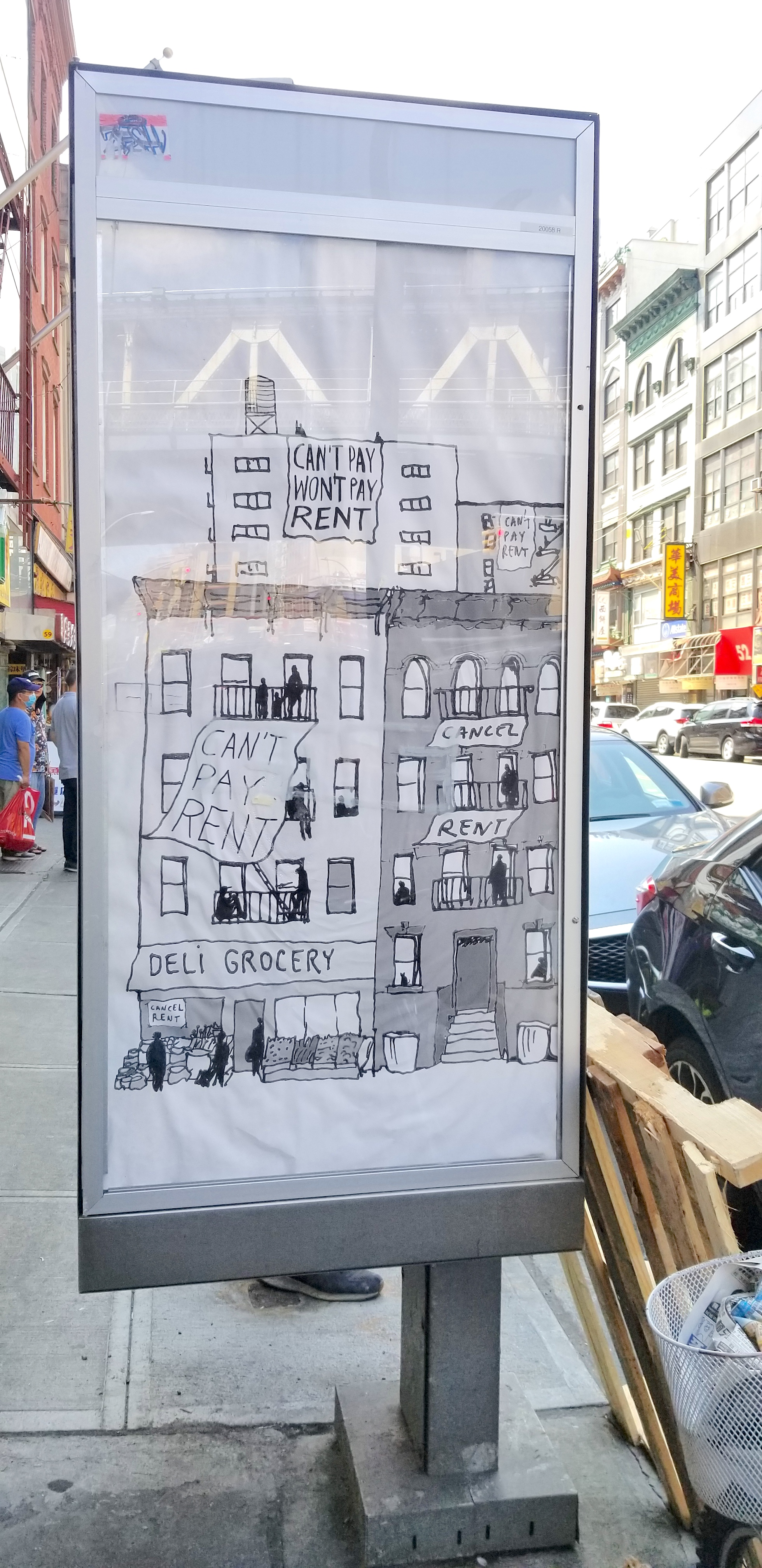 Cancel rent poster with reflection of Manhattan Bridge in the background. Photo taken in the Two Bridges neighborhood of NYC in August 2020.